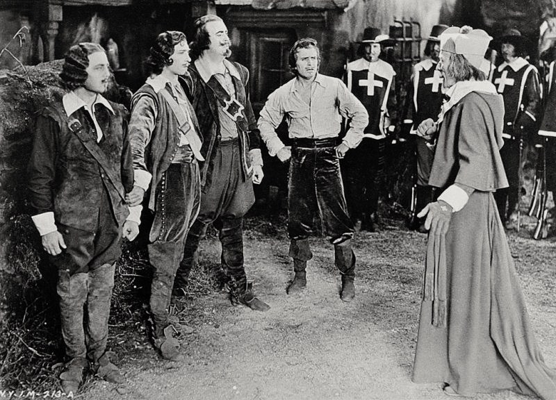 Left to right: Gino Corrado, Léon Bary, Tiny Sandford, Douglas Fairbanks, and Nigel De Brulier in The Iron Mask (1929) - cropped screenshot